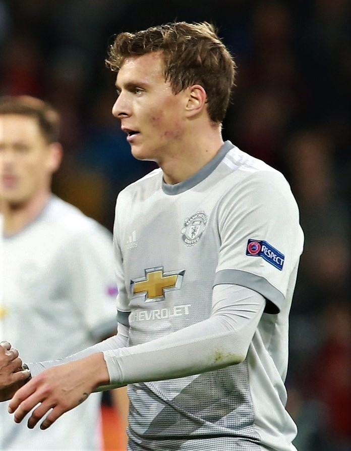 Victor Lindelöf